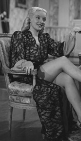 Betty Lagos- actriz argentina